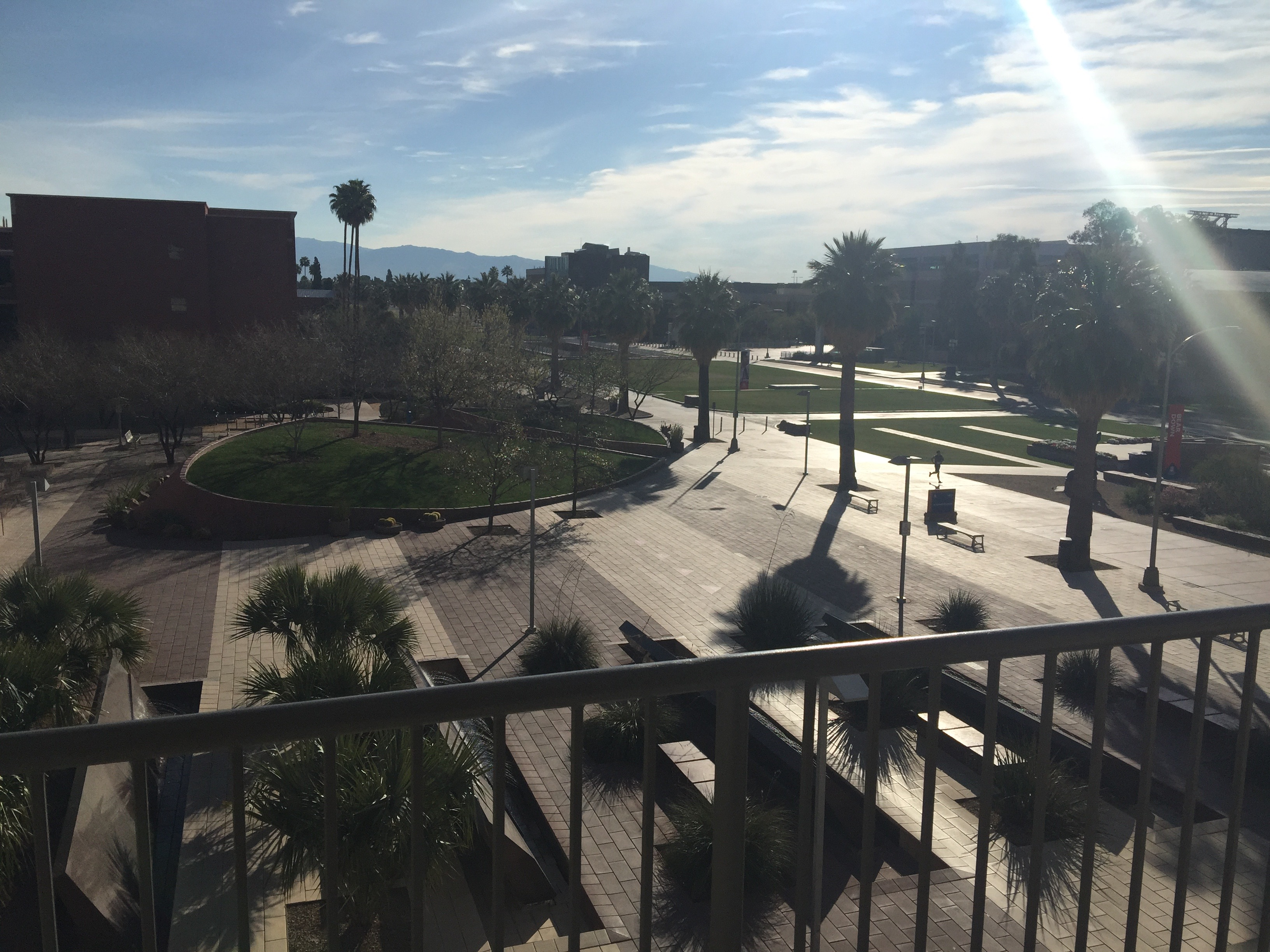 U Arizona Alumni Plaza 2015